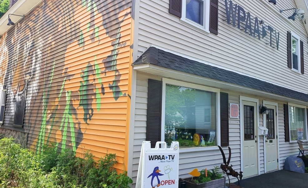 WPAA-TV building main entrance